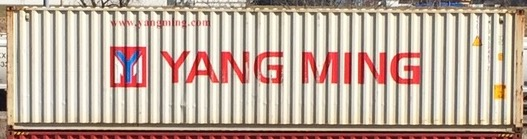 Yang Ming container